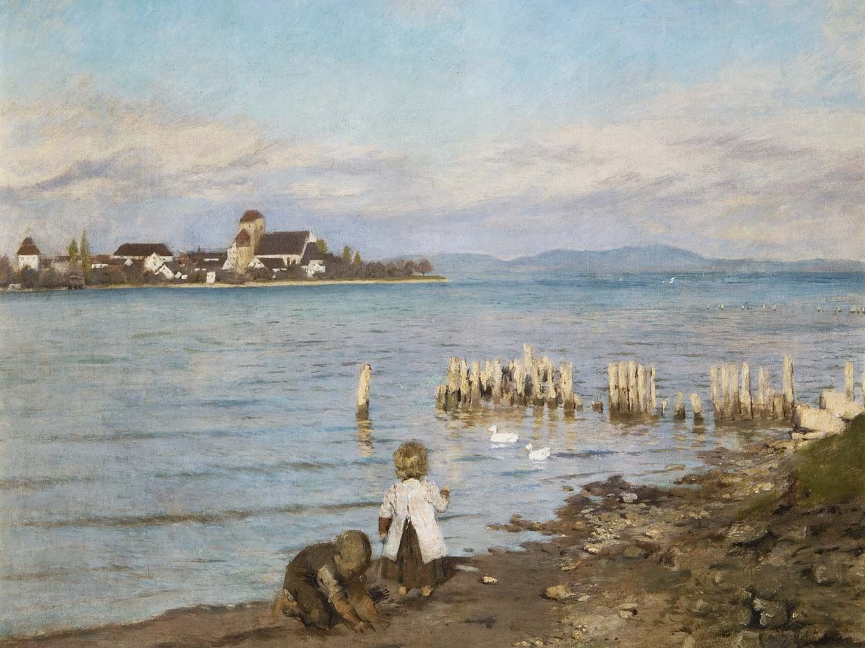 Playing children at Lake Constance